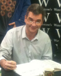 Cartoonist from Viz Comic, signing The Cleveland Steamer annual, leadenhall Market Waterstones, London